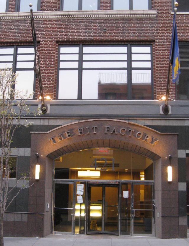 Hit Factory at 421 West 54th St